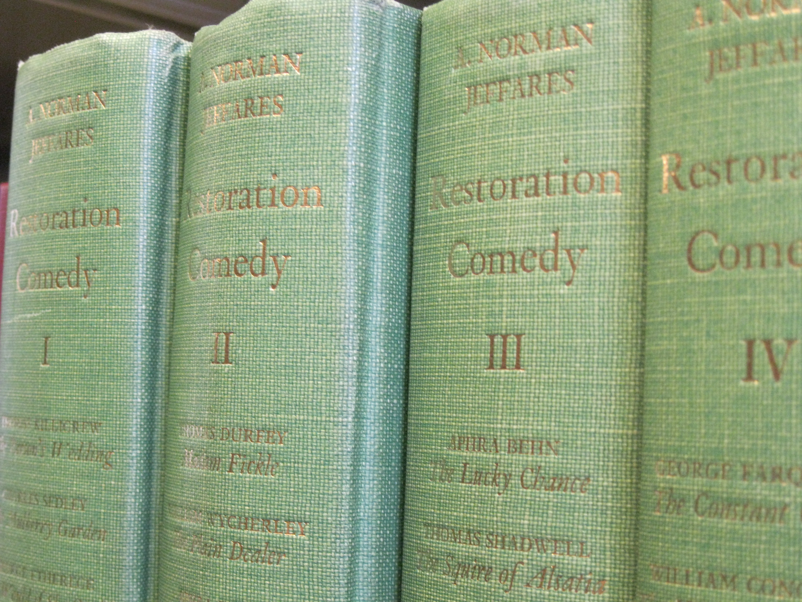 Photo taken on 24 Jan, 2013 by A.M. Stangl